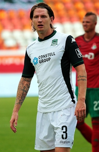 Stefan Strandberg